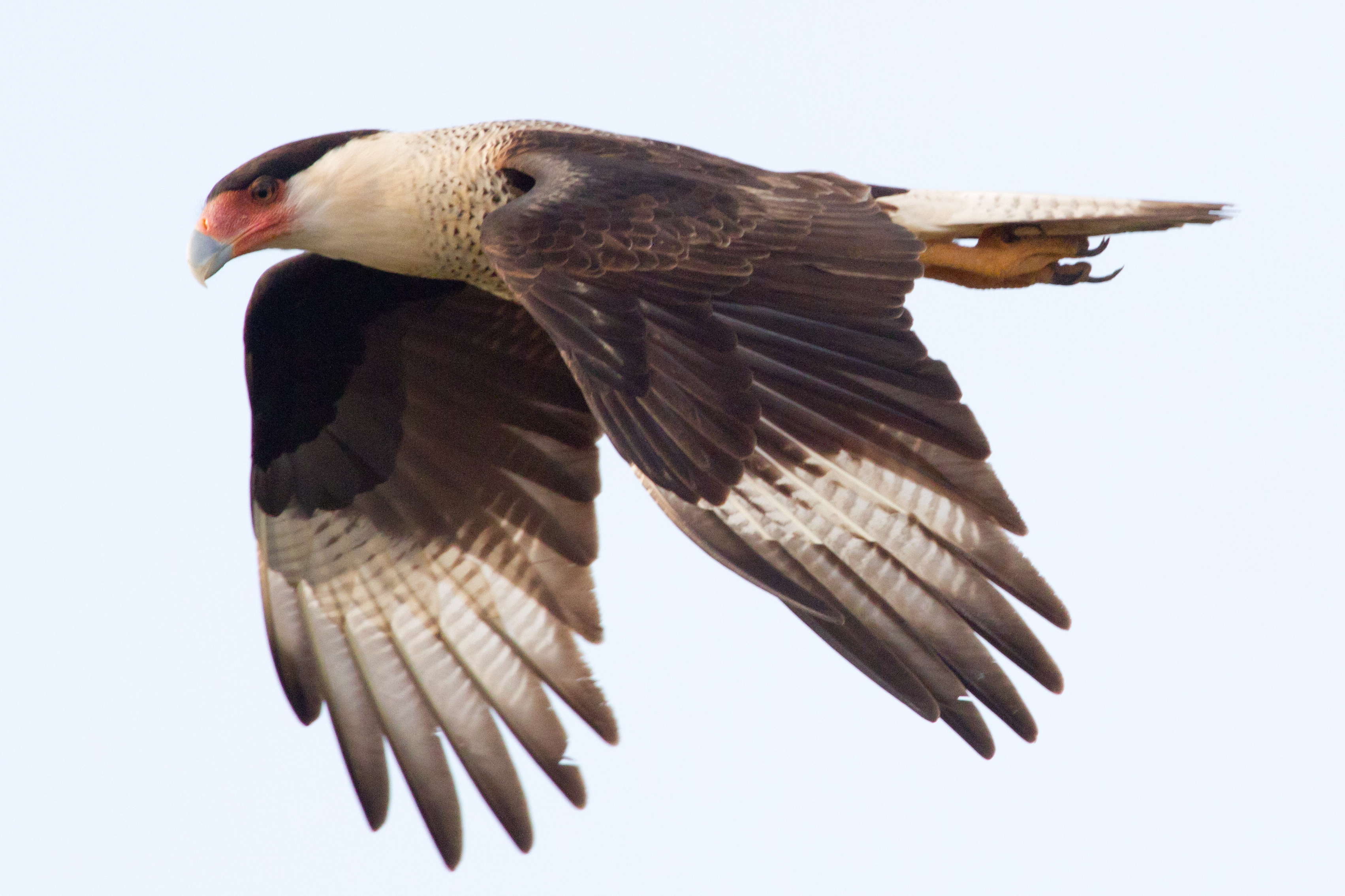 Caracara cheriway in Brazoria National Wildlife Refuge, Texas